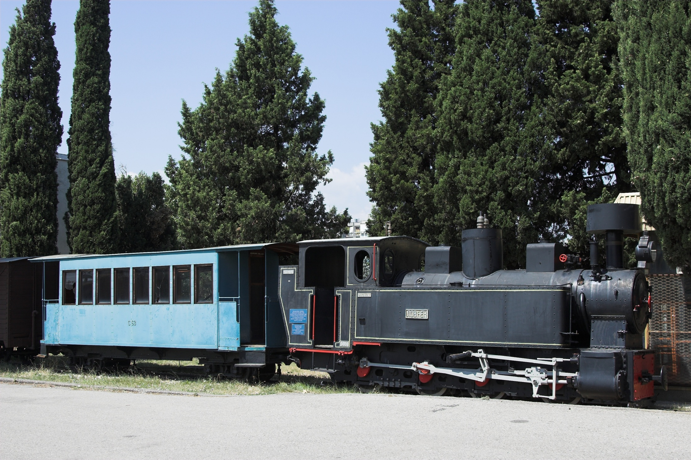 Locomotive "Lovcen" of the Bar - Virpazar narrow gauge railway (Antivari railway) on plinth in Podgorica station